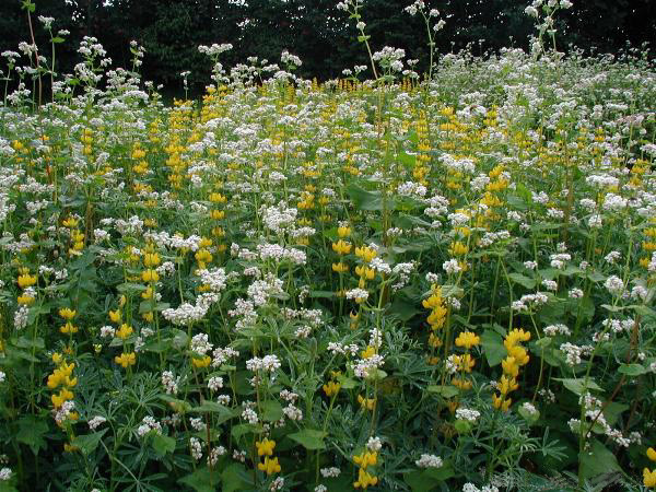 Fagopyrum esculentum: Here with Lupinus luteus